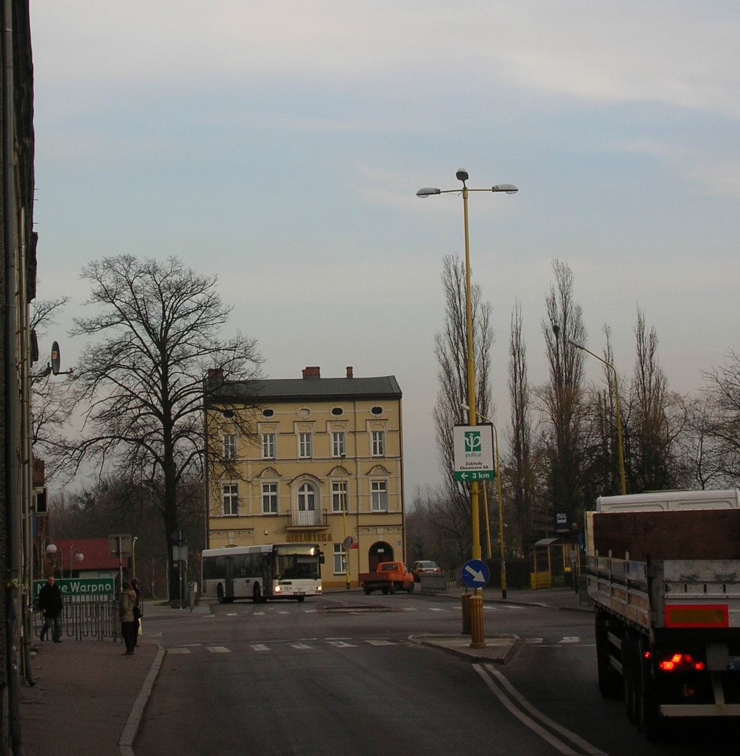 The way No. 114 in The Old Town of Police, Pomerania region in Poland. MAN NL 313 bus (#3034), built 1999, SPPK Police operator.